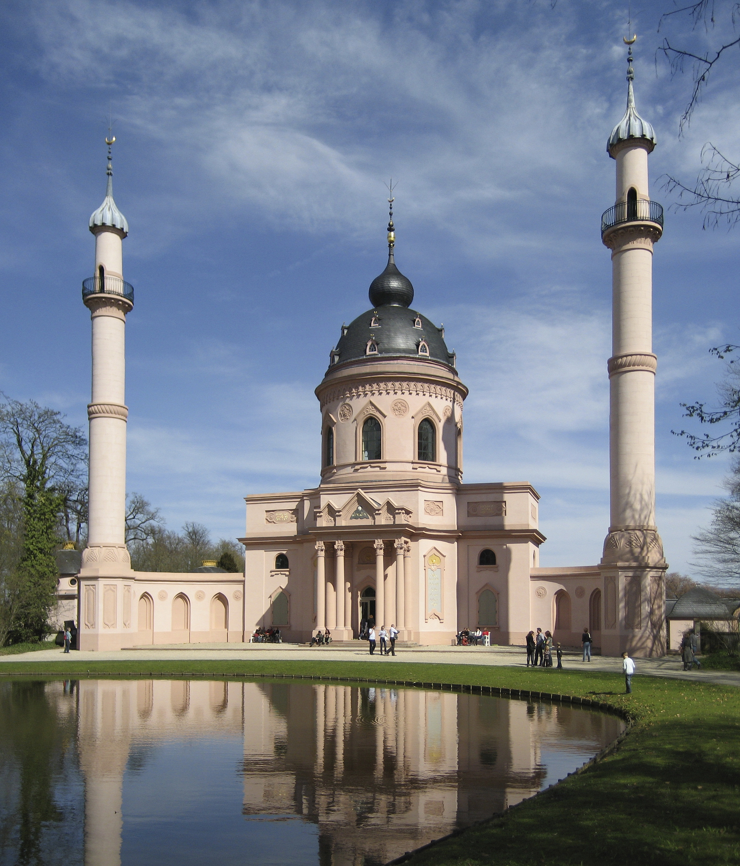 Mosque, Castle Garden of Schwetzingen